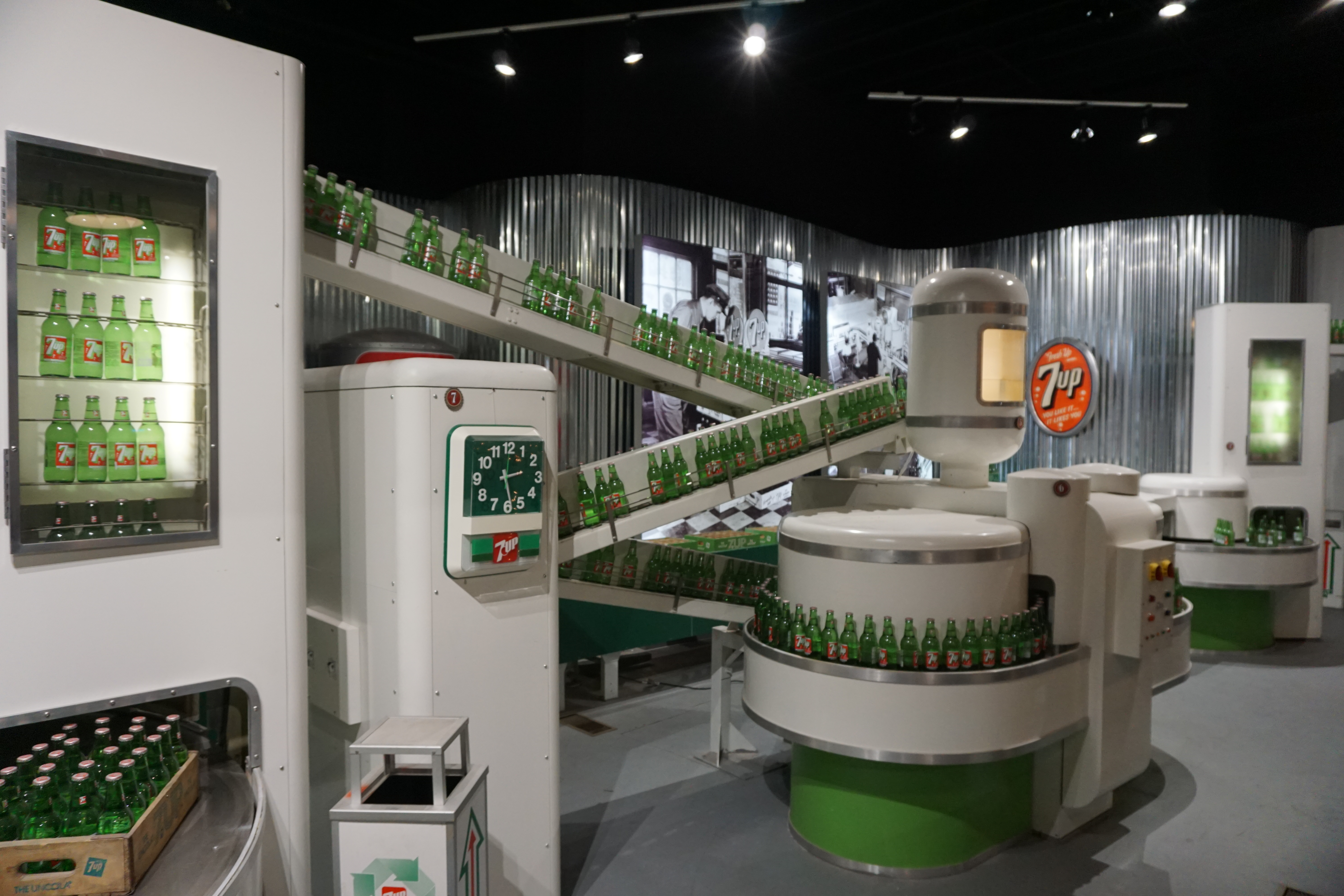 The 7up bottling exhibit at the Dr Pepper Museum in Waco, Texas (United States).